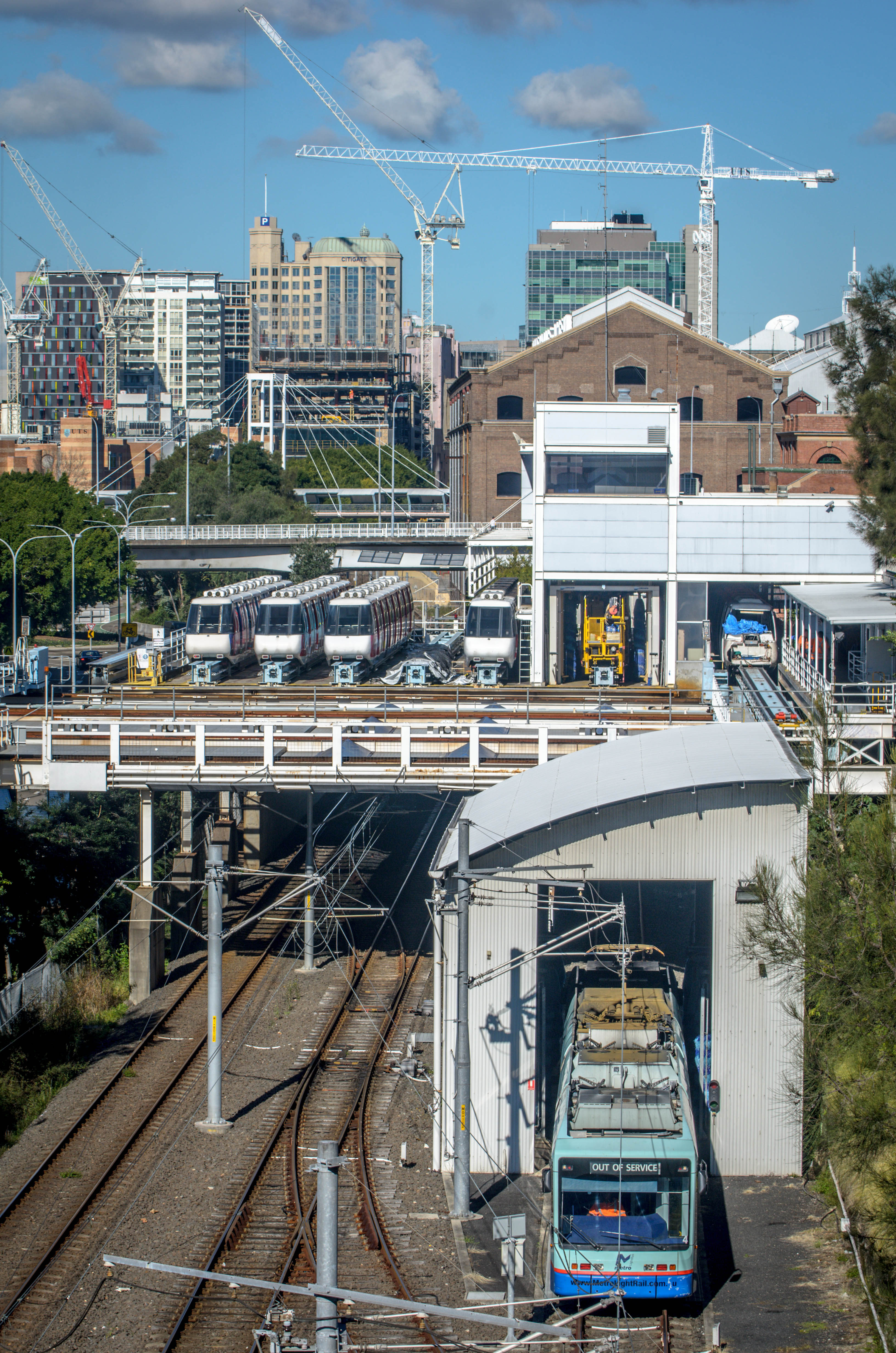 Metro Monorail Maintenance after closure showing fleet and accident damaged set prior to scrapping.